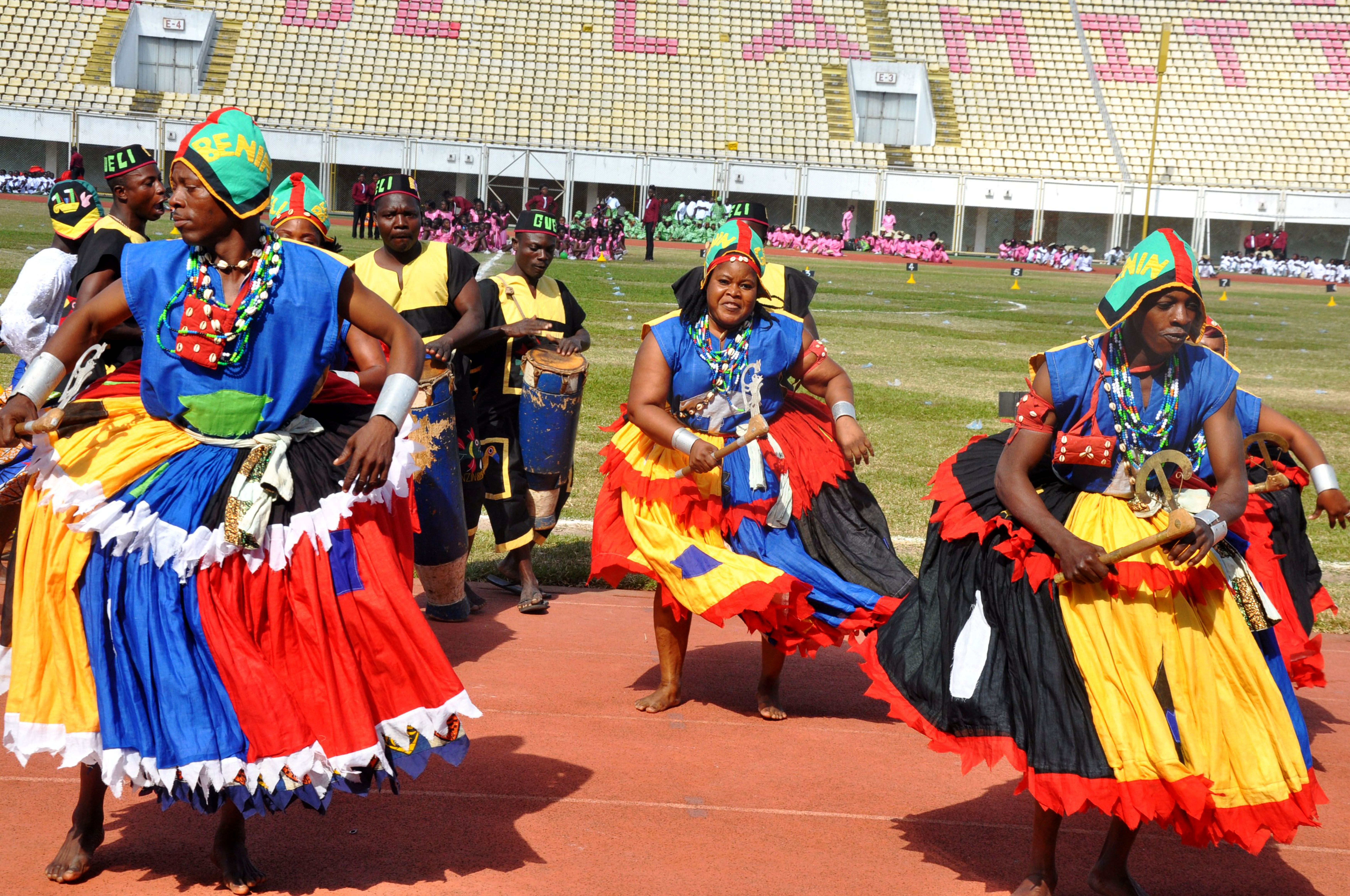 Beninese choreographic artists imitating Sakpata dance This is an image with the theme "Africa on the Move or Transport" from: Benin